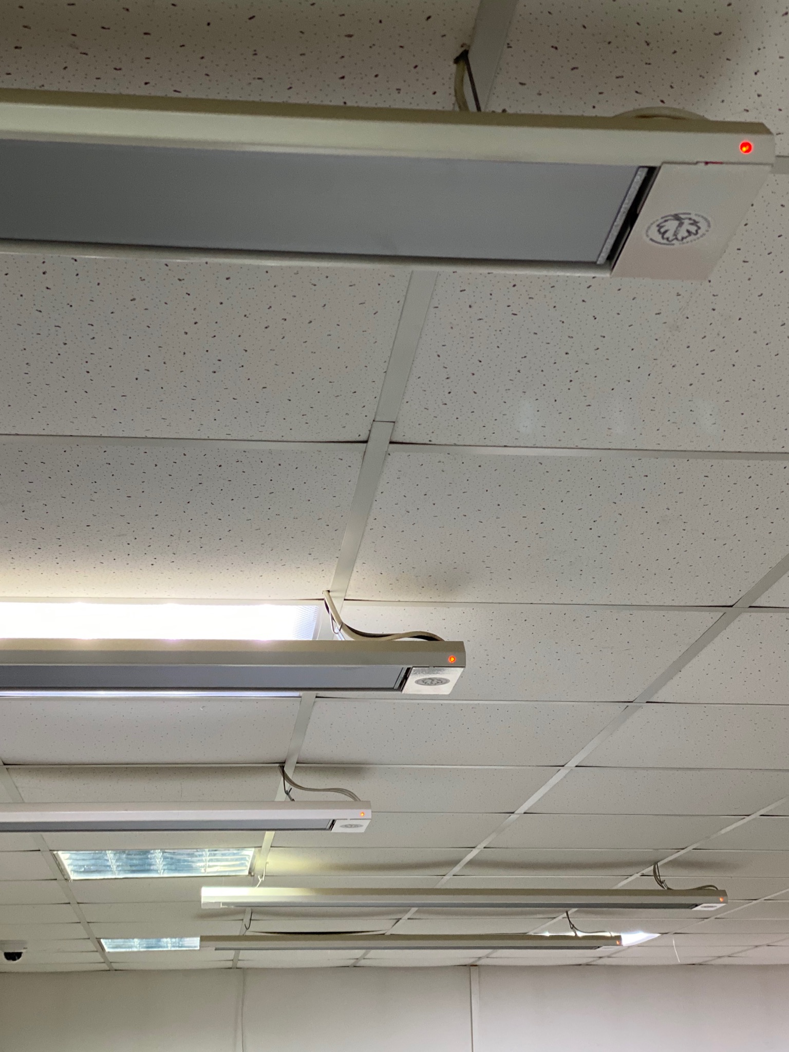 Far infrared heater by Bilux company